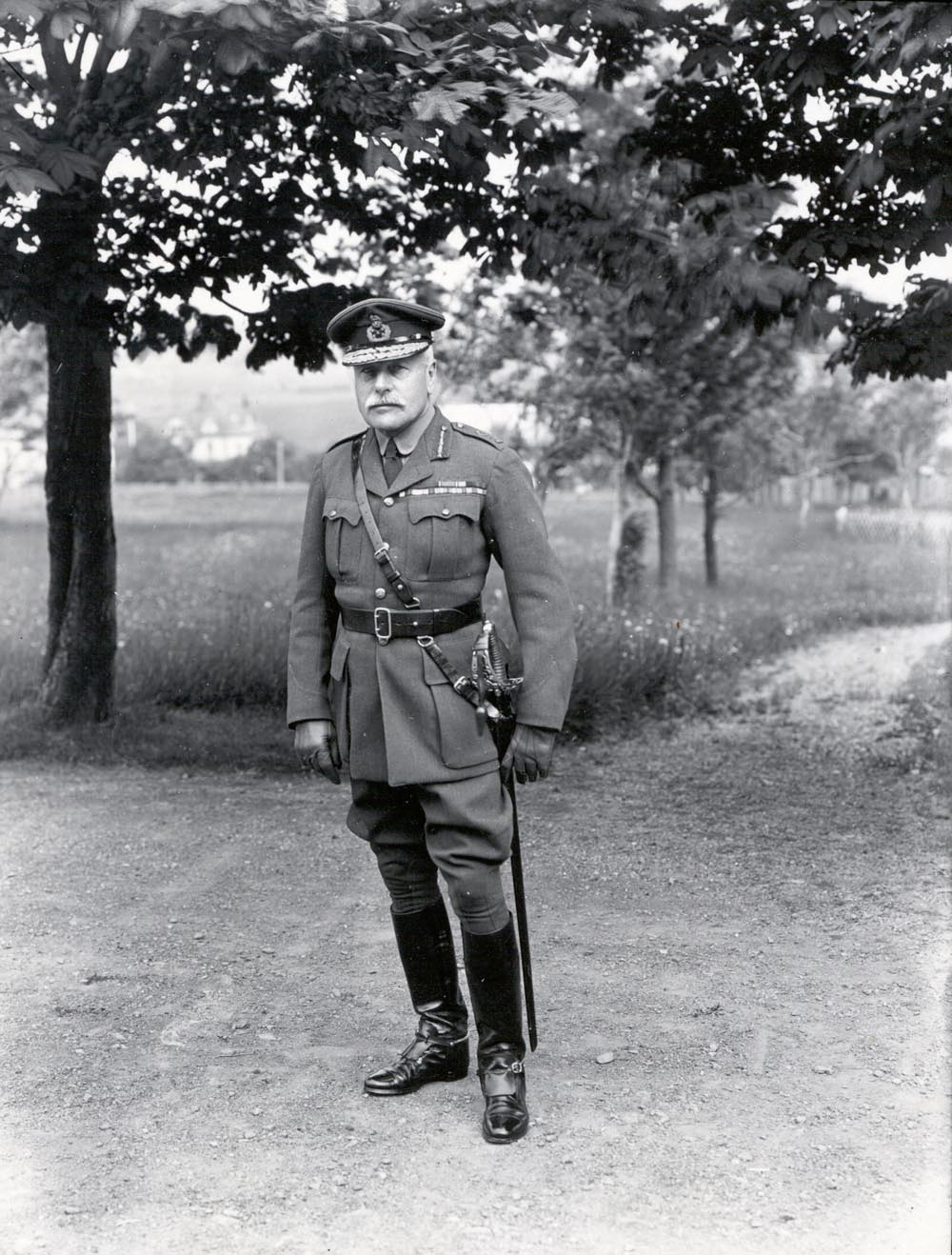 Field Marshall Earl Haig, Government House Grounds, St. John's, Newfoundland